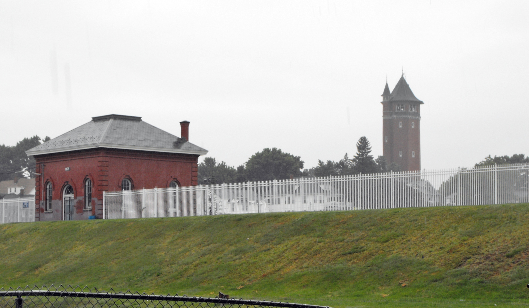 Water Tower and Reservoir, Lawrence, Massachusetts